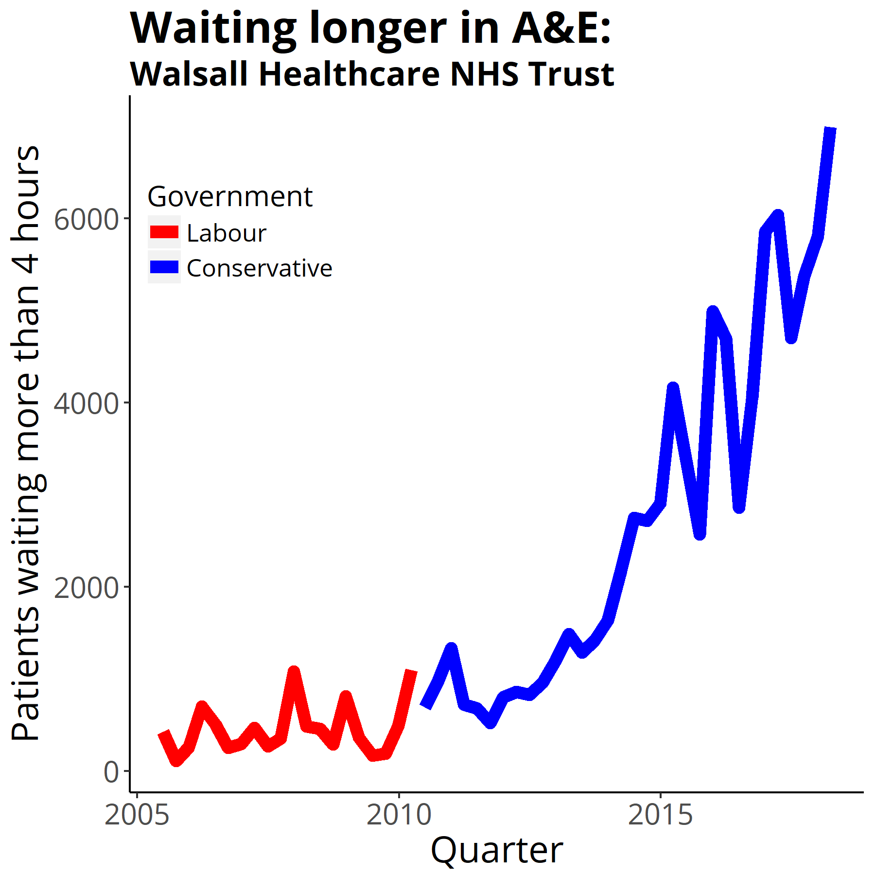 Four-hour target in the emergency department quarterly figures from NHS England Data from